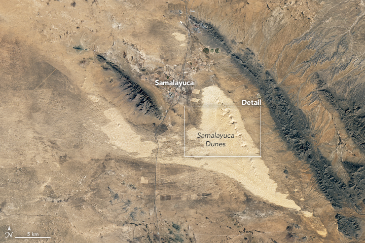 When sheets of ice spread across North America during the Pleistocene Epoch, many pluvial lakes formed well beyond the edge of the ice sheets. Lake Bonneville in northern Utah and Lake Lahontan in northern Nevada are the largest and most famous examples, but pluvial lakes covered landscapes much farther to south, in areas that are now quite dry. Lake Palomas spread across 9,000 square kilometers (3,500 square miles) of what is now the Chihuahua desert in northern Mexico. Like other pluvial lakes, it dried up as the climate changed and the ice retreated during the Holocene. Yet evidence of its sandy shoreline remains today as the Samalayuca dune field. The Operational Land Imager (OLI) on Landsat 8 acquired this image of the area on January 27, 2018. The sand, almost pure silica, was originally deposited by the Rio Grande when the river used to flow into the prehistoric lake. More recently, winds have pushed the sand eastward to its present location near the town of Samalayuca. The dune field has long been an imposing barrier for people traveling the trade route from Santa Fe to Mexico City. During the Mexican-American war, Colonel Alexander Doniphan reported several deaths as troops and mules regularly sank waist-deep into the white sand. John Russell Bartlett, commissioner of the United States and Mexican Boundary Survey, barely made it across with his team of geographers in 1850, despite devoting 12 to 15 oxen to each wagon. More recently, the dunes have become a place of recreation for people from nearby Ciudad Juárez. Outdoor adventurers like the area for sand surfing and driving all-terrain vehicles on the dunes. The dune field also has attracted the interest of sand mining interests. With silica-content of 90 to 95 percent, Samalayuca’s sand is nearly pure enough to be used by the glass and ceramics industries, though it would need to be treated to achieve a purity of 98 percent for many applications. References and Further Reading: see original source, above